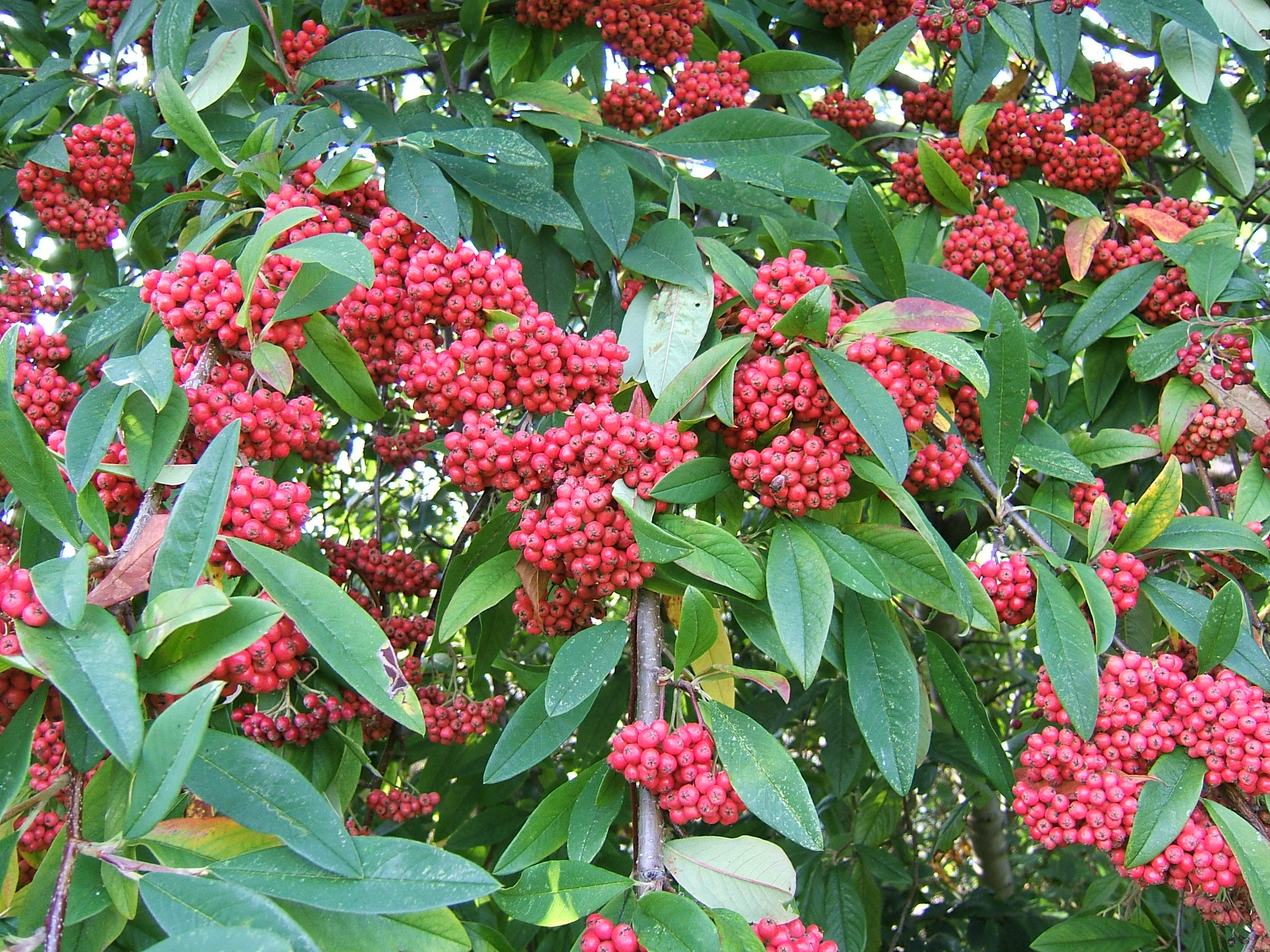 Cotoneaster frigidus foliage and fruit. Naturalised, Newcastle, Northumberland, UK.